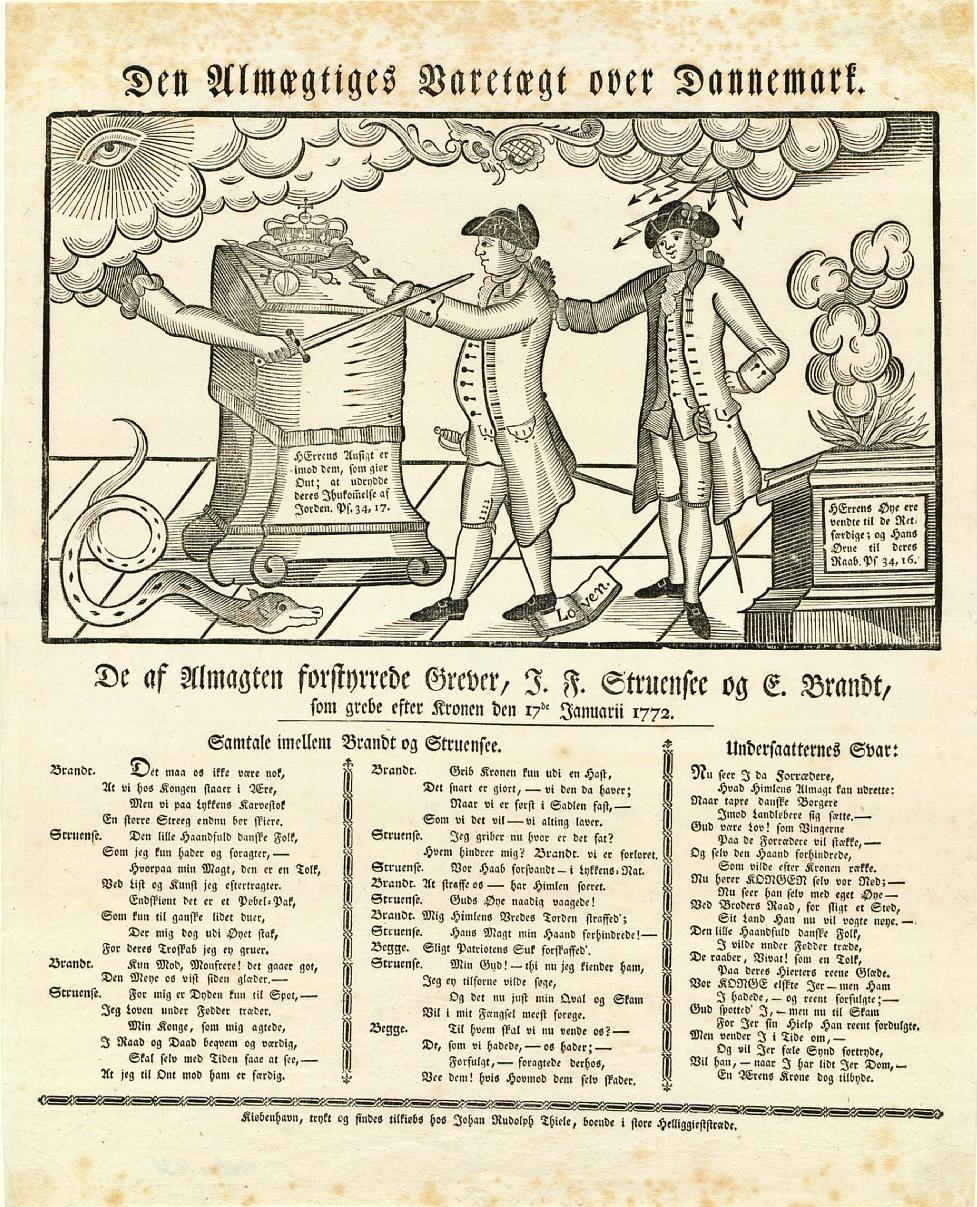 Satirical print on Struensee and Brandt.